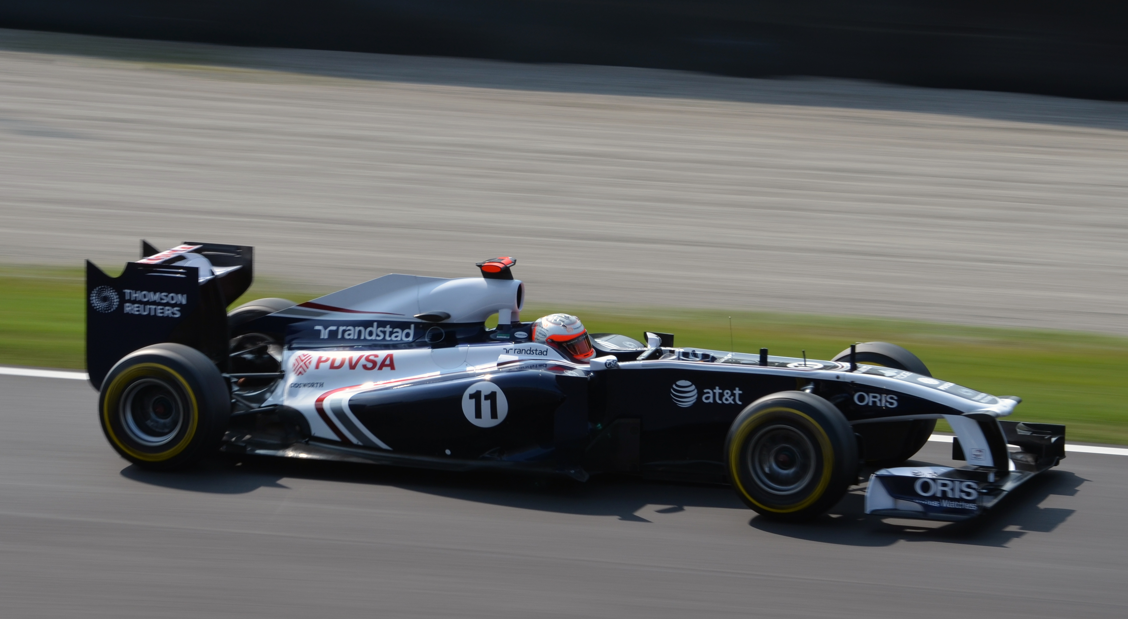 Rubens Barrichello in the Williams-Cosworth FW33 during qualifying for the 2011 Italian Grand Prix at Monza.